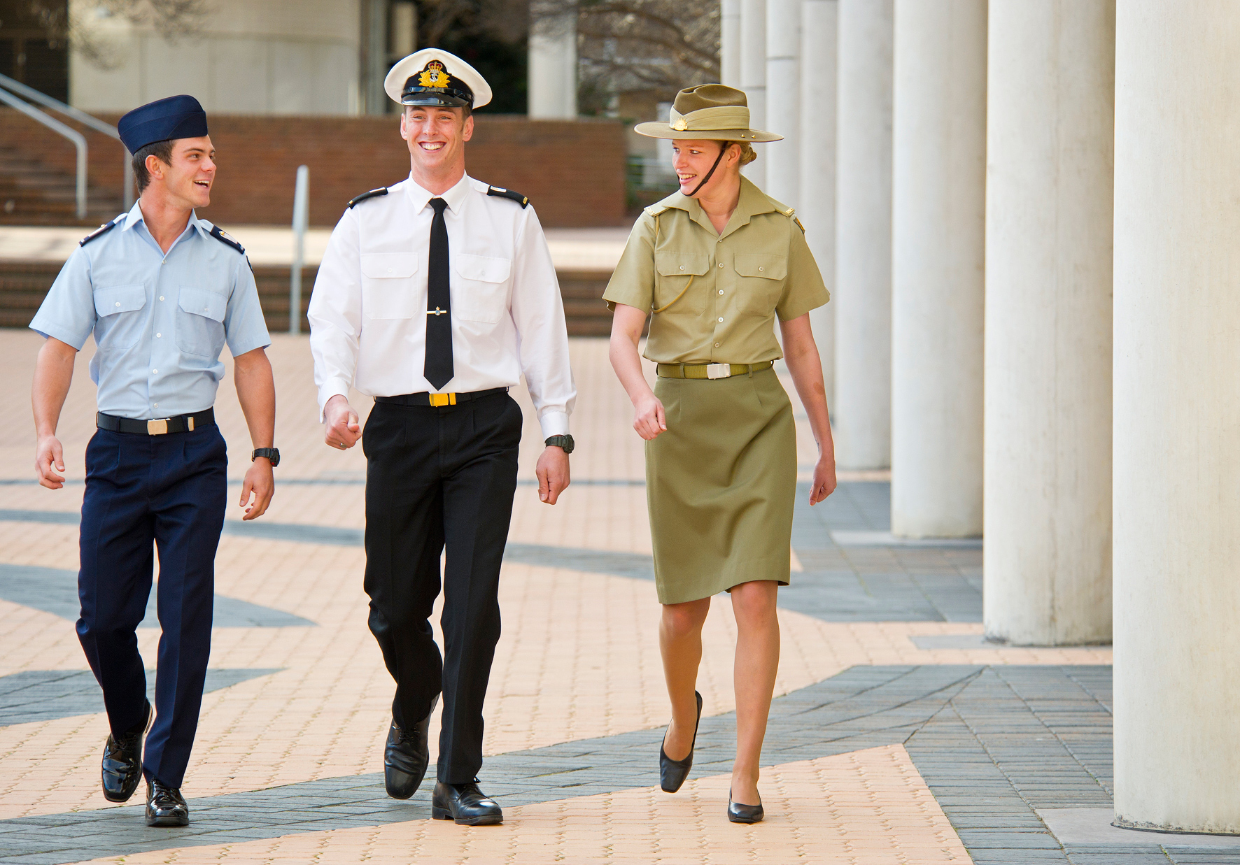 ADFA Tri-Service Institution